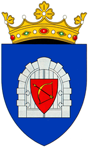 CoA of Ialoveni District